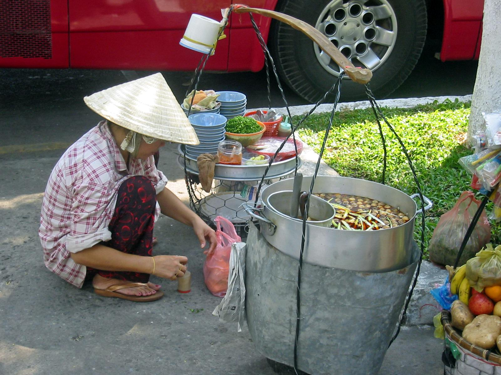 Cookshop in Ho Chi Minh City, Vietnam